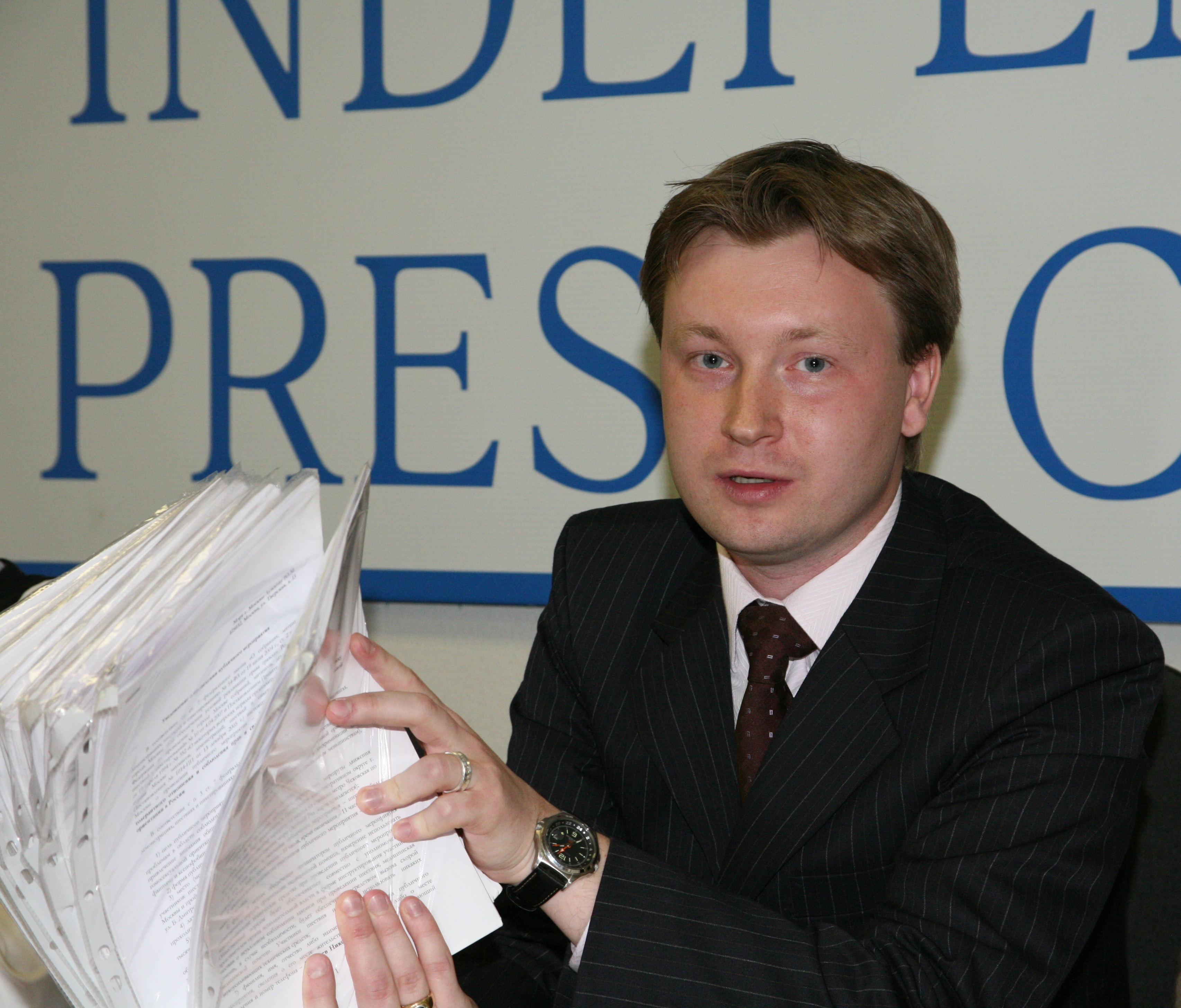 Photo of Nikolai Alekseev